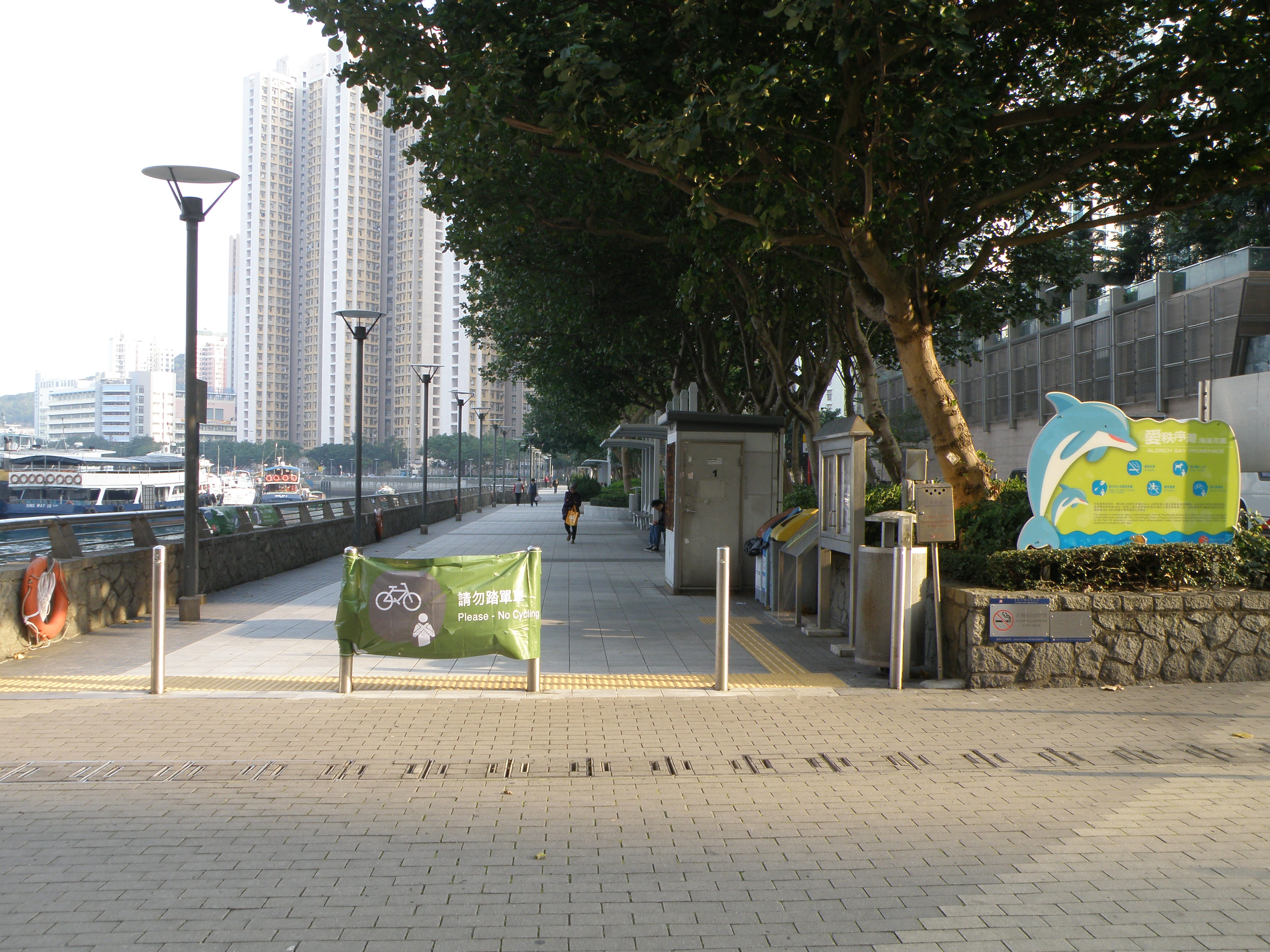 Aldrich Bay Promenade in Shau Kei Wan, Hong Kong.